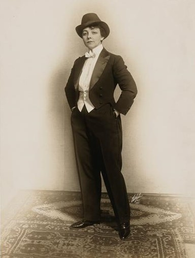 Mary Young in the Broadway's play Stranger Than Fiction - publicity still (cropped)